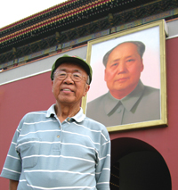 Photograph of retired Chinese Ambassador Ji Chaozhu in front of the portrait of Mao in Tianenmen Square. Photo by Foster Winans